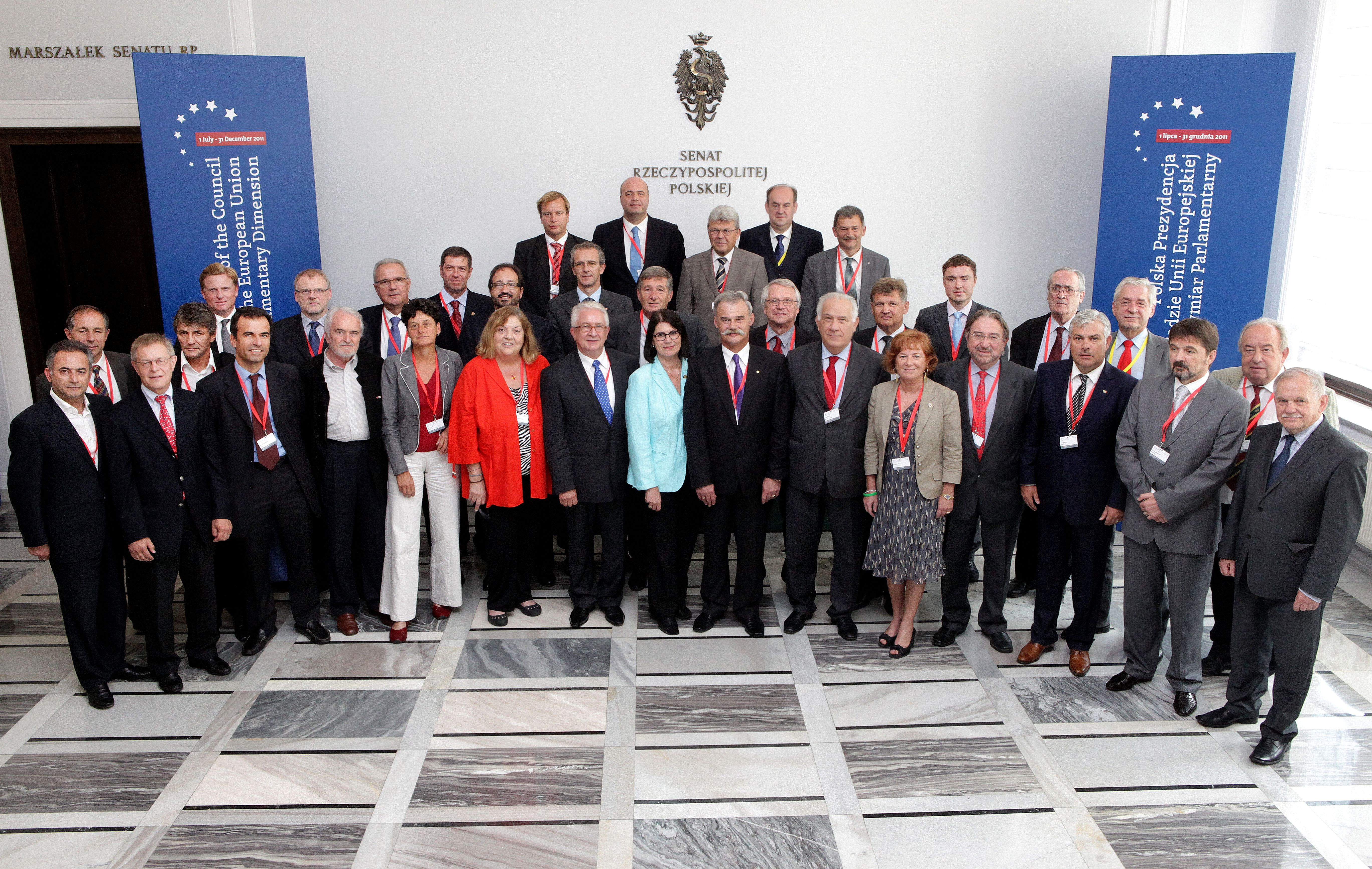 Meeting of the Chairpersons of COSAC (Conference of Community and European Affairs Committees of Parliaments of the European Union) in the Polish Senate